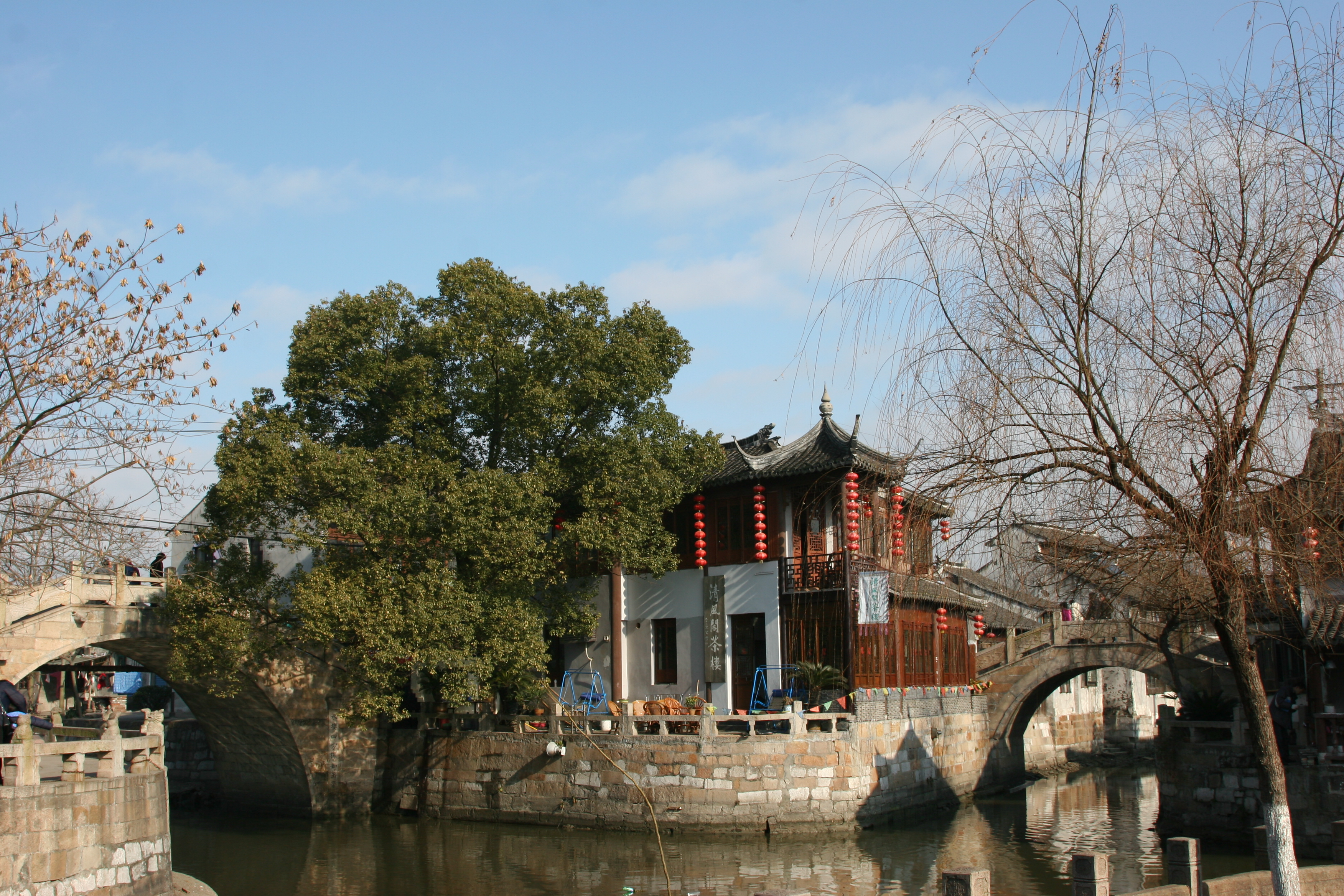 Fengjing, a famous town of Shanghai, China